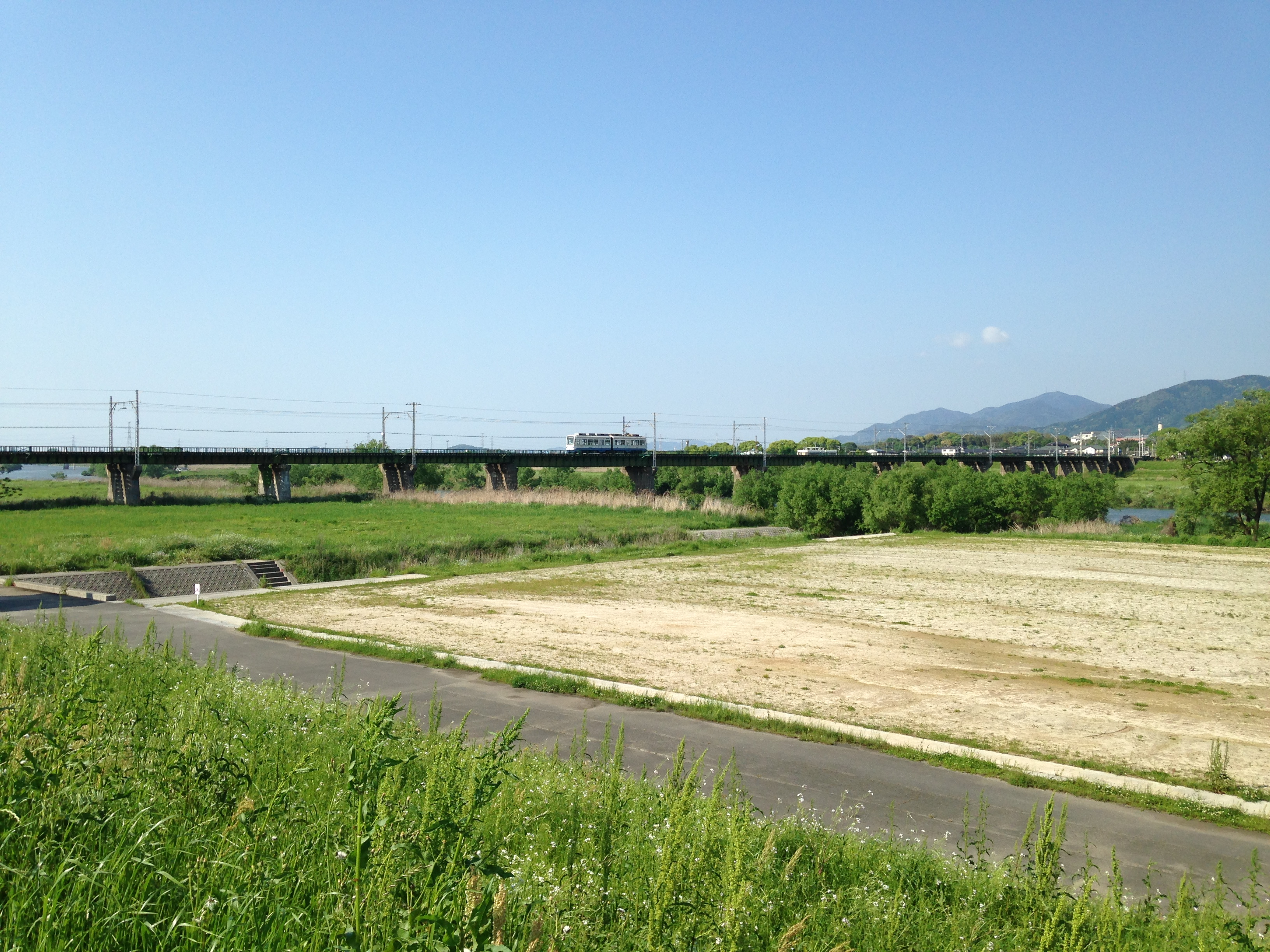 A Chikuho Electric Railroad 3000 series EMU crossing the bridge over the Onga River in Fukuoka Prefecture, Japan